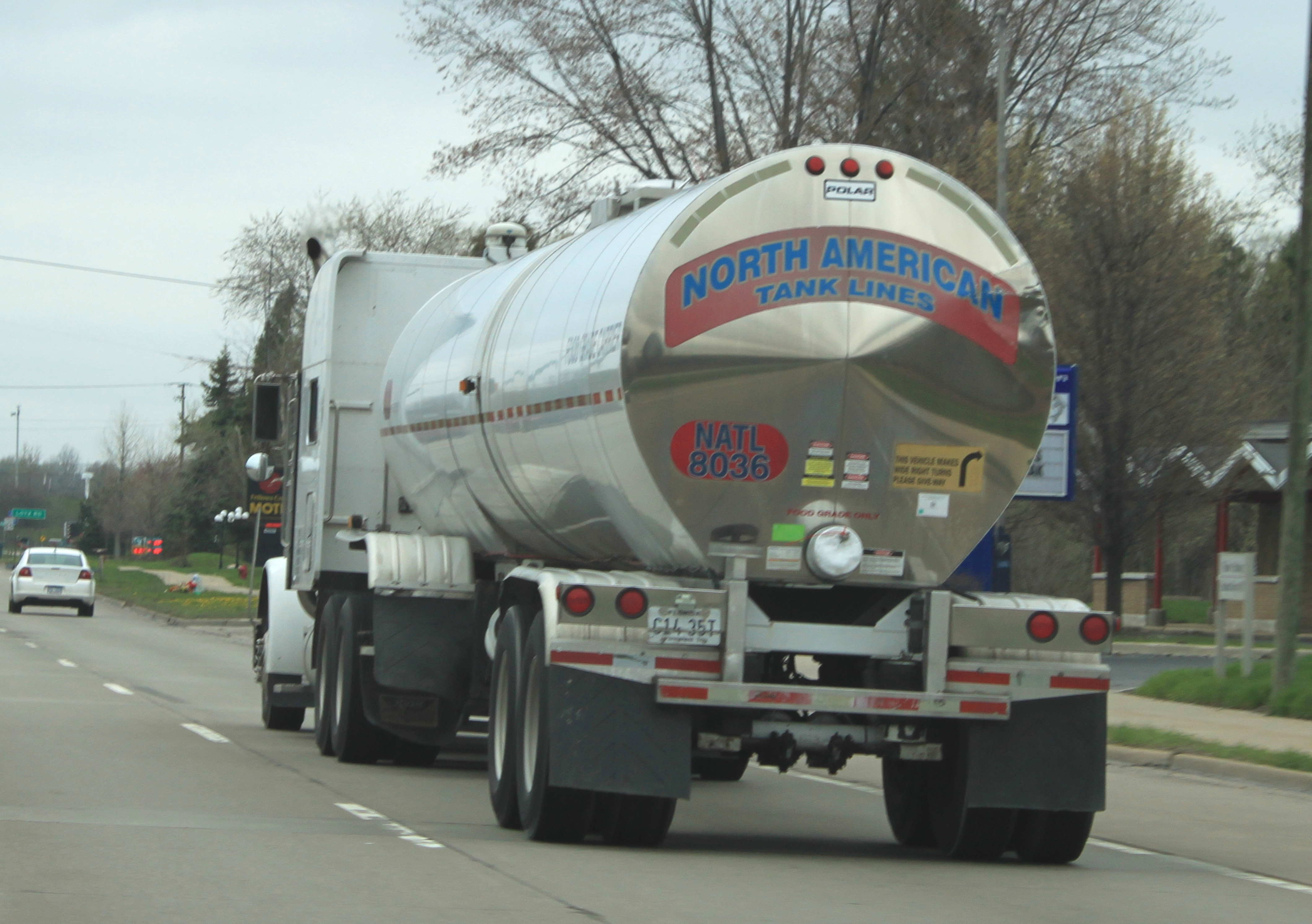 North American Tank Lines Polar food grade stainless steel tanker, Michigan Avenue east of Lotz Road, Canton Township, Michigan